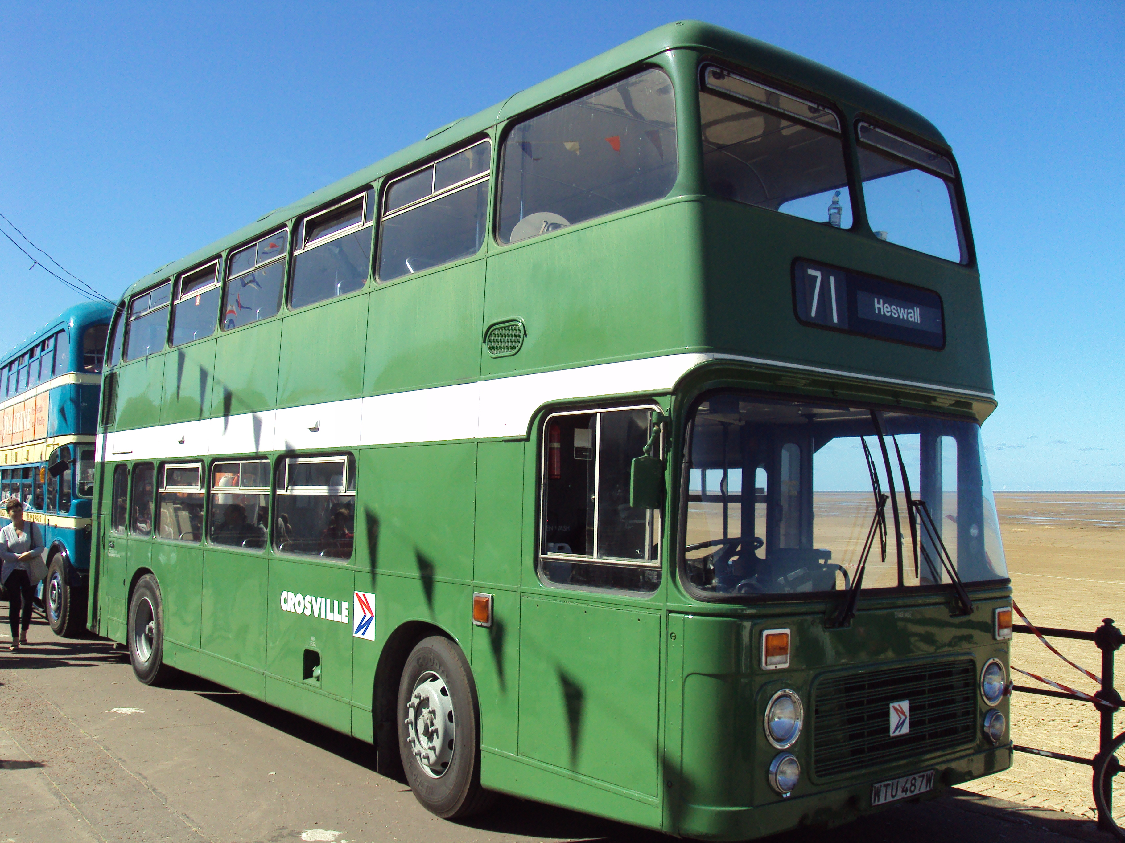 Photo taken during the Hoylake lifeboat open day on Bank Holiday Monday 30th August 2010, Wirral, Merseyside, England. This model of Crosville bus used to run the Birkenhead Woodside-Heswall route in the 1980s.